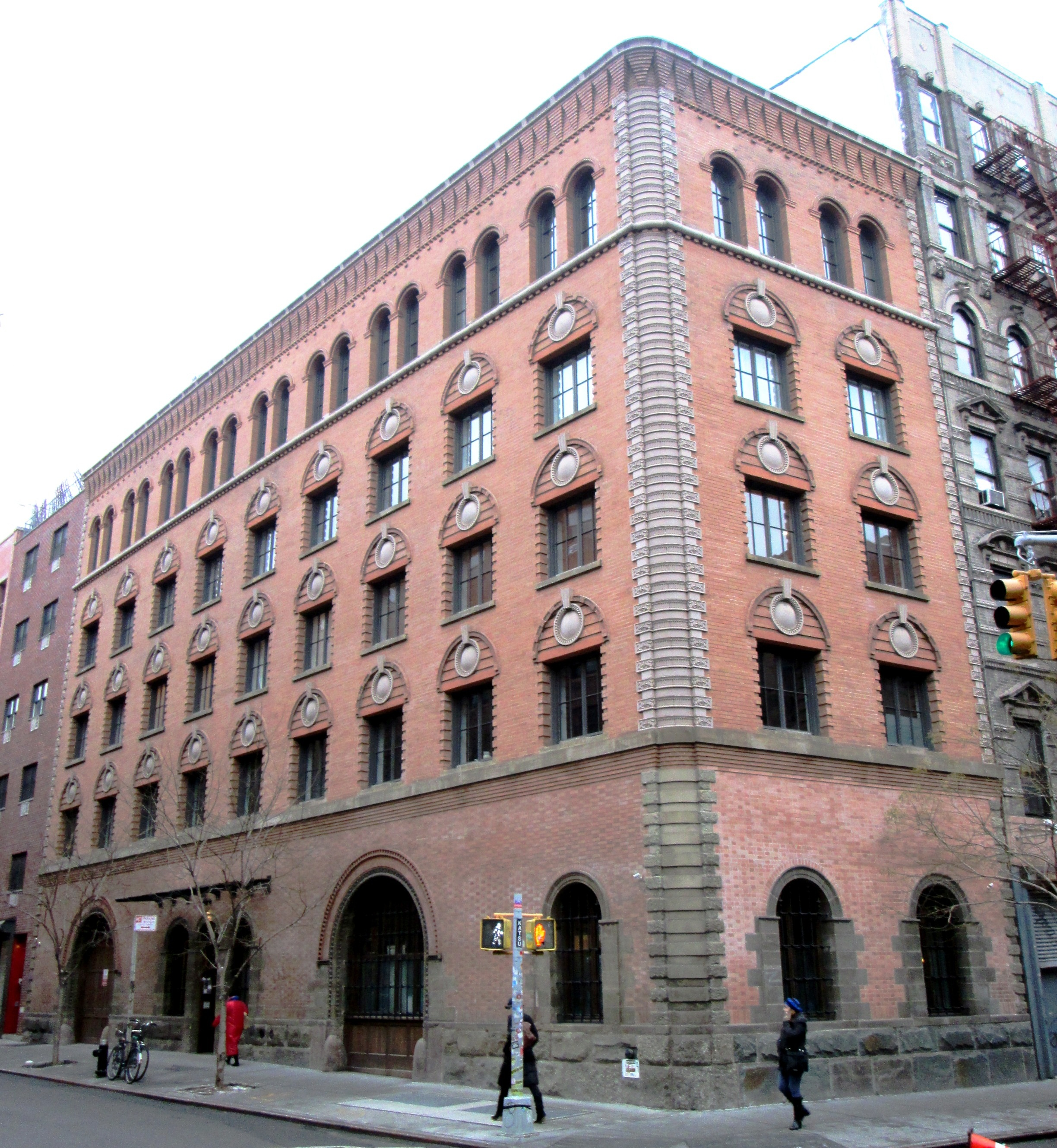 11 Spring Street, a former stable and carriage house at the corner of Elizabeth Street in the Nolita neighborhood of Manhattan, New York City was built in 1888. It was once a noted magnet for graffiti artists, who covered the exterior of the building with their artwork. When the building was bought for conversion into condominiums, the developers, in collaboration with the Wooster Collective, mounted a show inside the building, inviting well-known graffitists – many of whom had work on the outside – to cover the entire five floors of the building's interior. The show opened in December 2006 for a few days, before work on the conversion began and the artwork was covered over or destroyed.Prior to its days as a canvas for graffiti, the stable had been the home of IBM employee John Simpson for 30 years. Simpson had filled it with Rube Goldberg-like mechanisms, and put burnt candles, surplus from the 1964 New York World's Fair, in the windows, giving the building its nickname at the time, the "Candle Building". (Sources: NYT article and New York City Songlines)